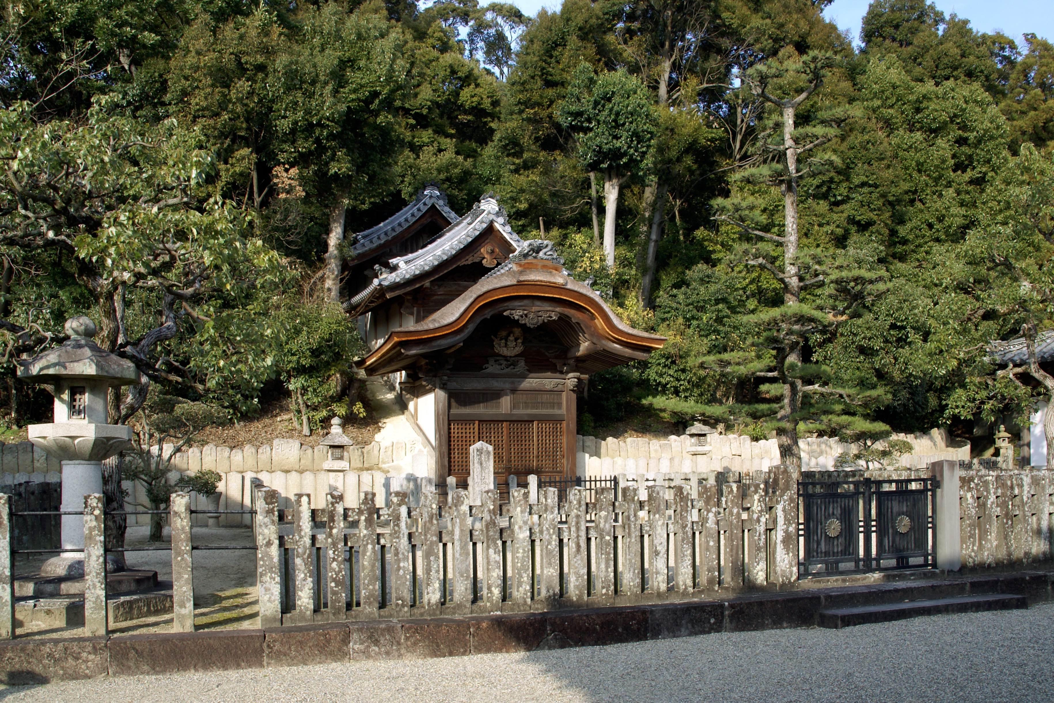 Eifuku-ji in Taishi, Osaka prefecture, Japan.